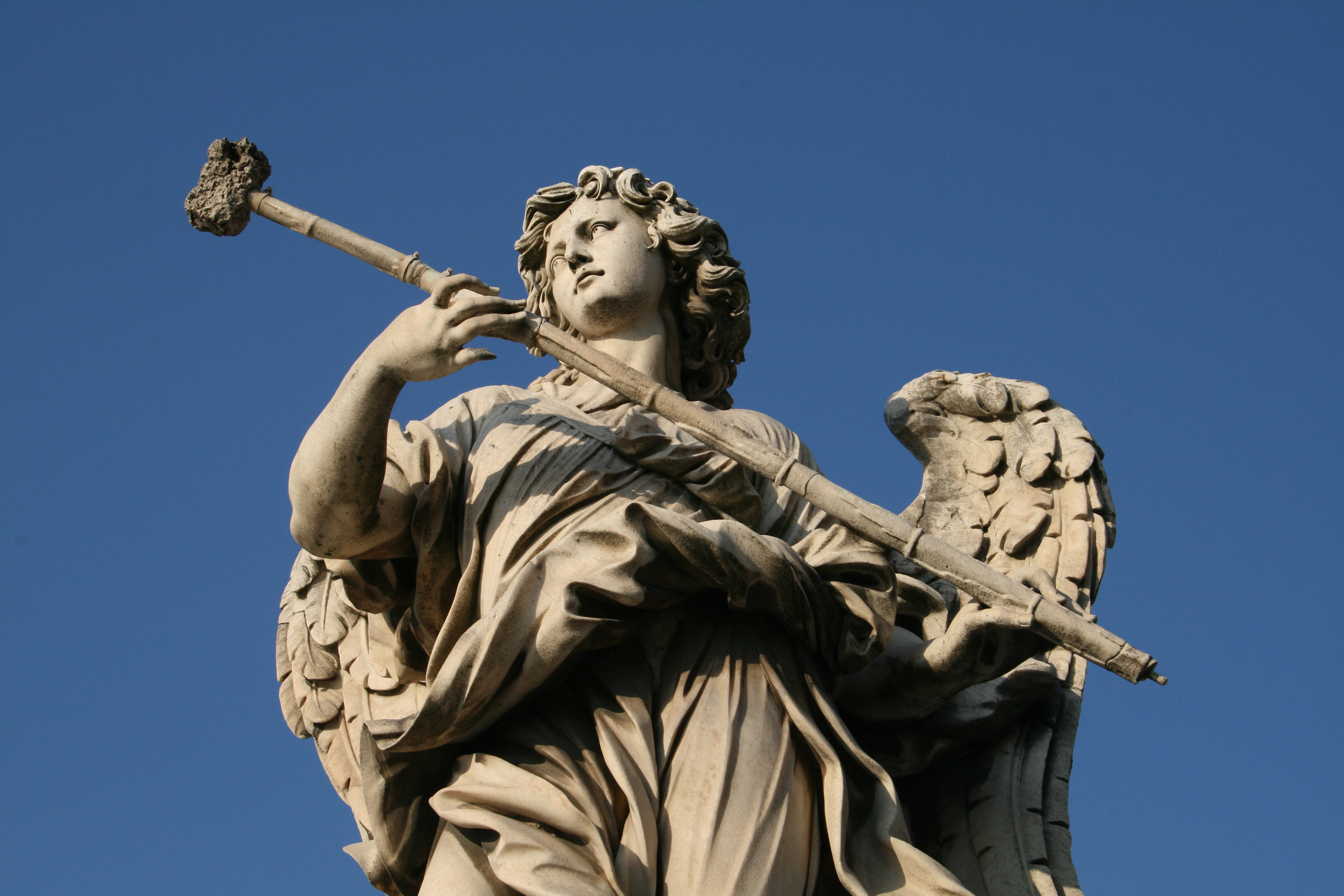 Angel bearing a sponge, by Antonio Giorgetti, with the inscription “potaverunt me aceto” ("they gave me vinegar to drink", Psalms 69:22), western side of the Ponte Sant'Angelo in Rome, Italy.